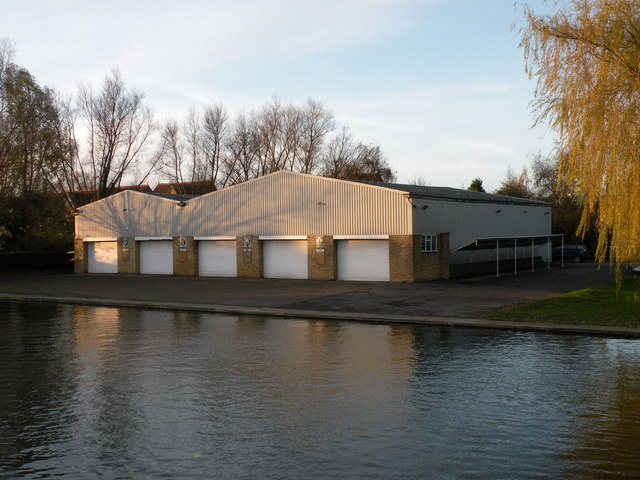 King's College Boat House Jointly used with Selwyn and Churchill Colleges and the Leys School.